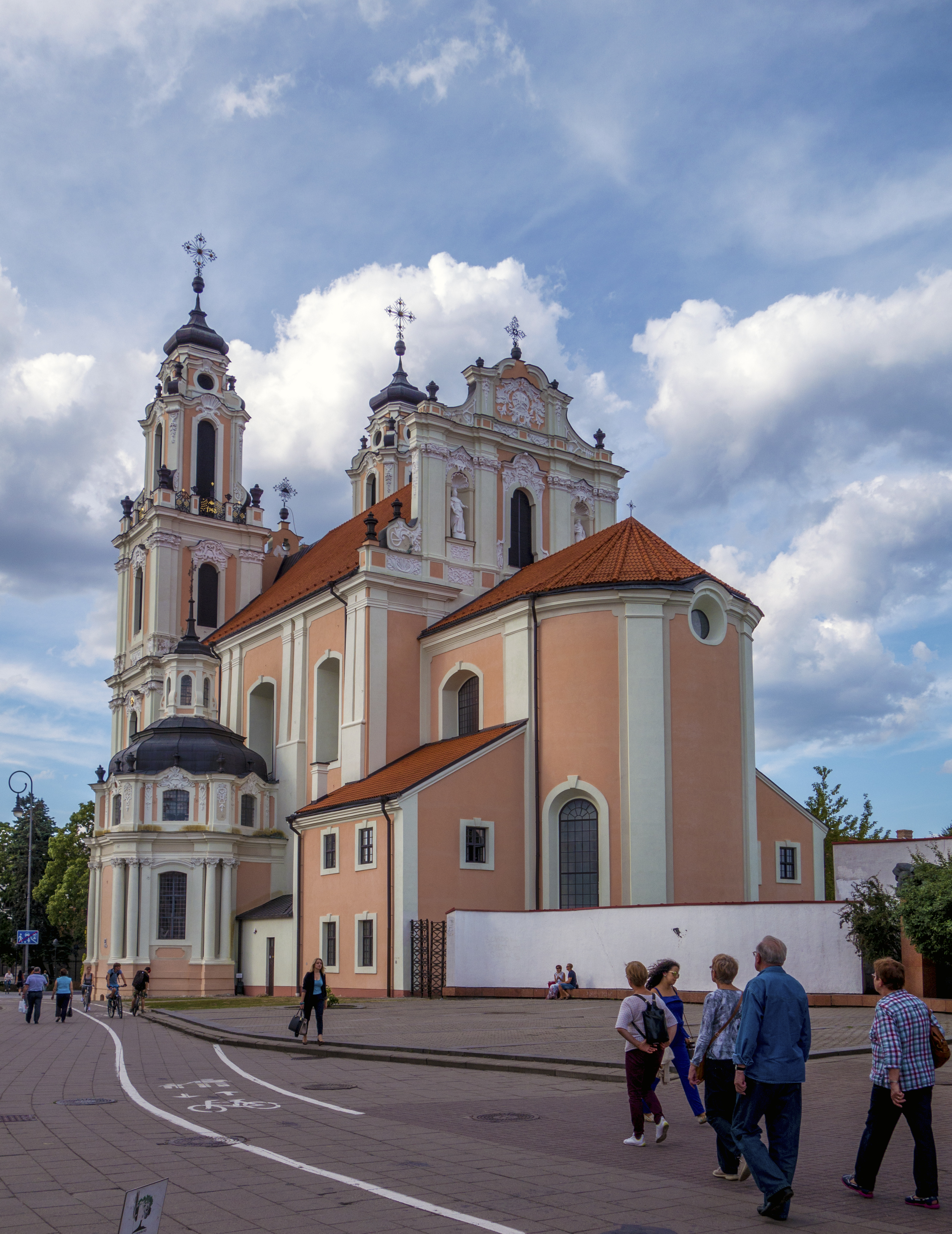 Church of St. Catherine in Vilnius